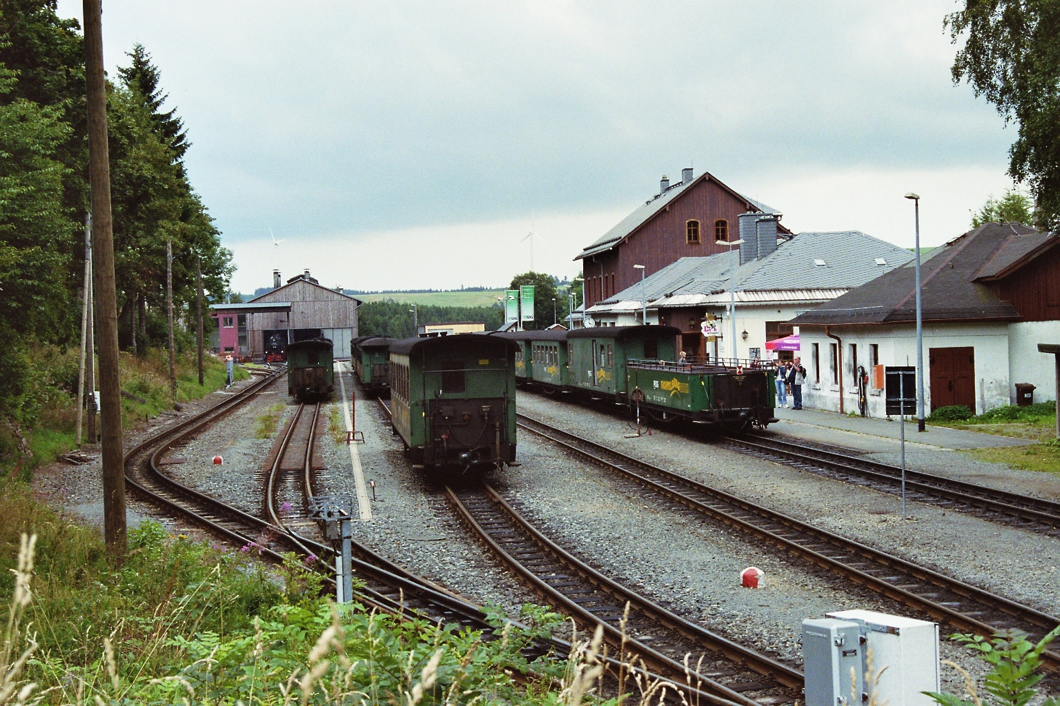 Train station in Oberwiesenthal, Germany